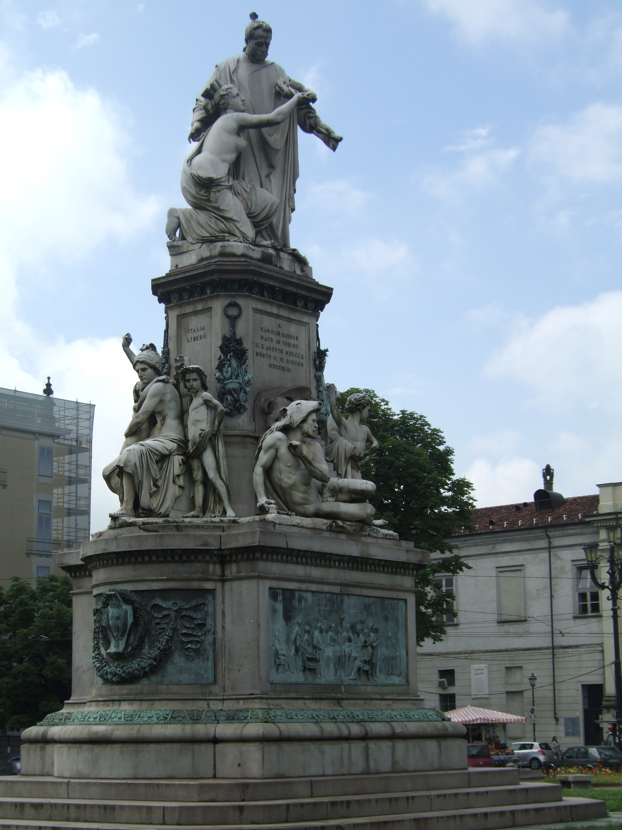 Camillo Benso of Cavour Monument at Piazza Carlo Emanuele II in Turin